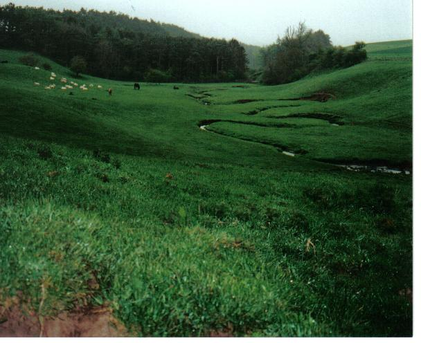 taken by j nesbit may 16, 2000